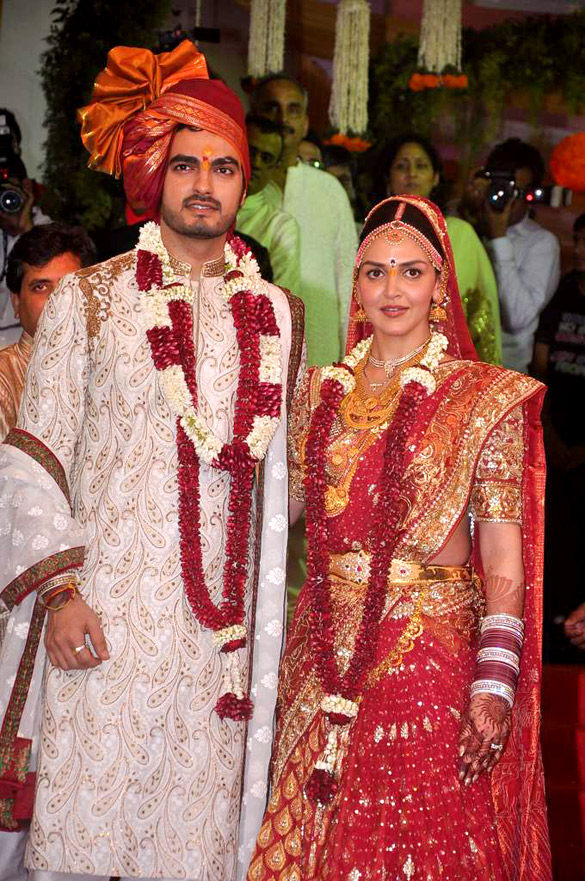 Bharat Takhtani, Esha Deol at Esha Deol's wedding at ISCKON temple